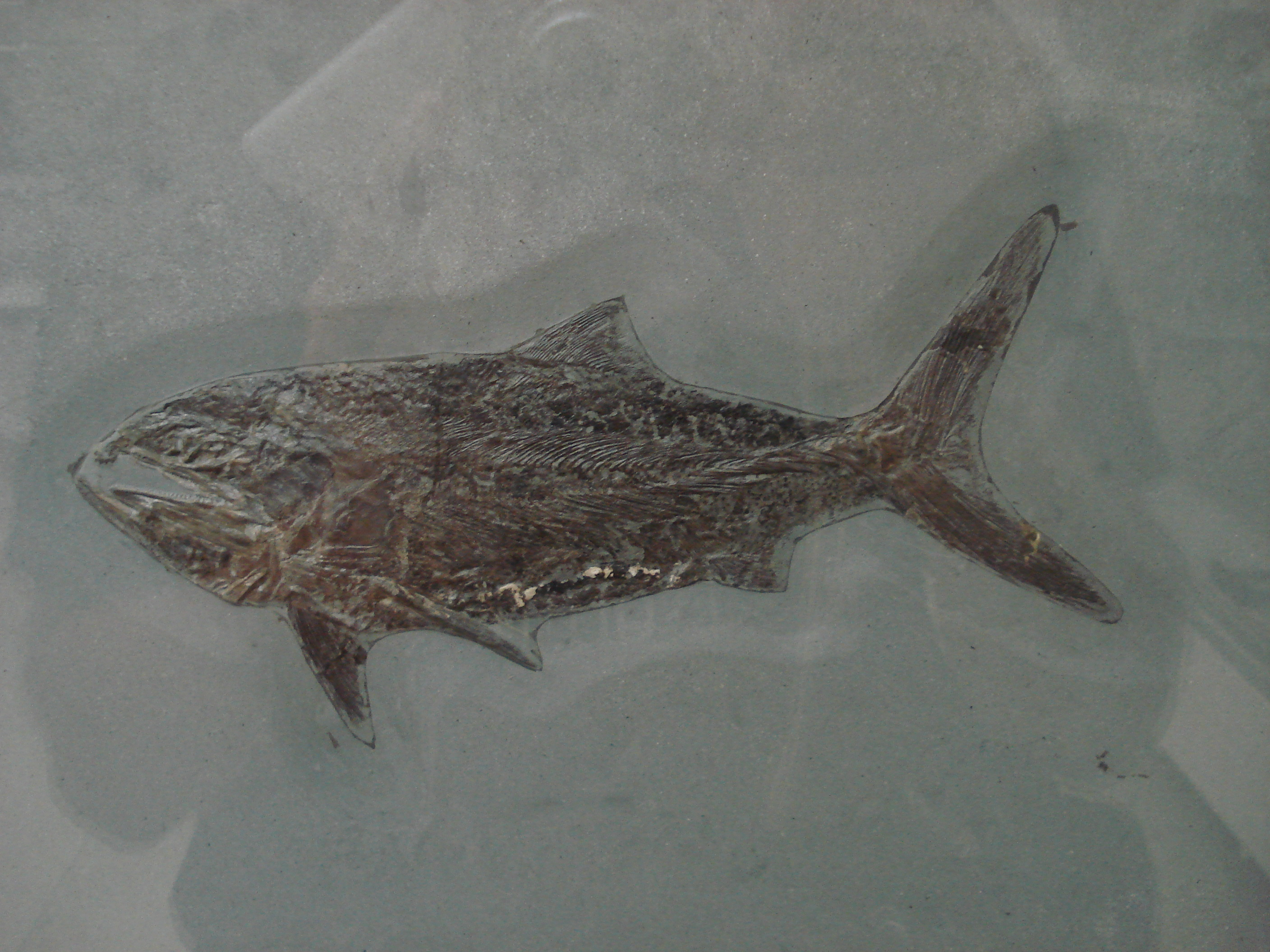 fossil of pachycormus